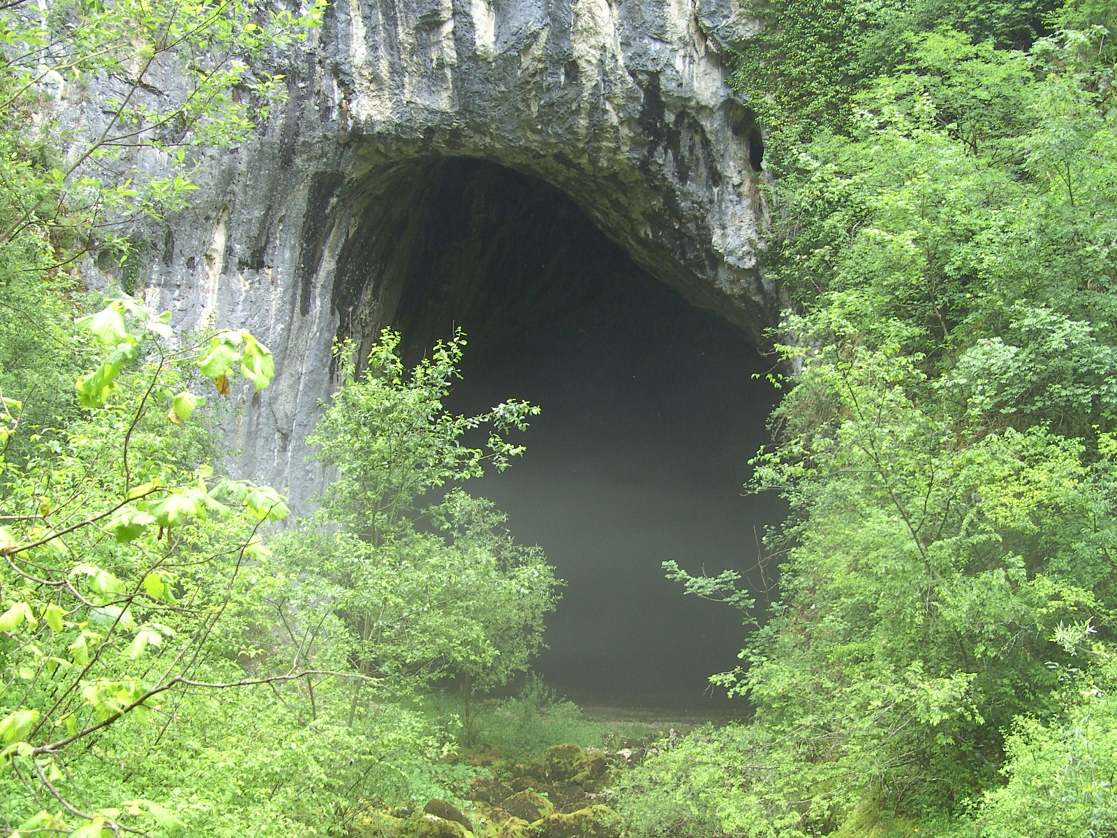 Spring of the Dabar River near Sanski Most, BiH